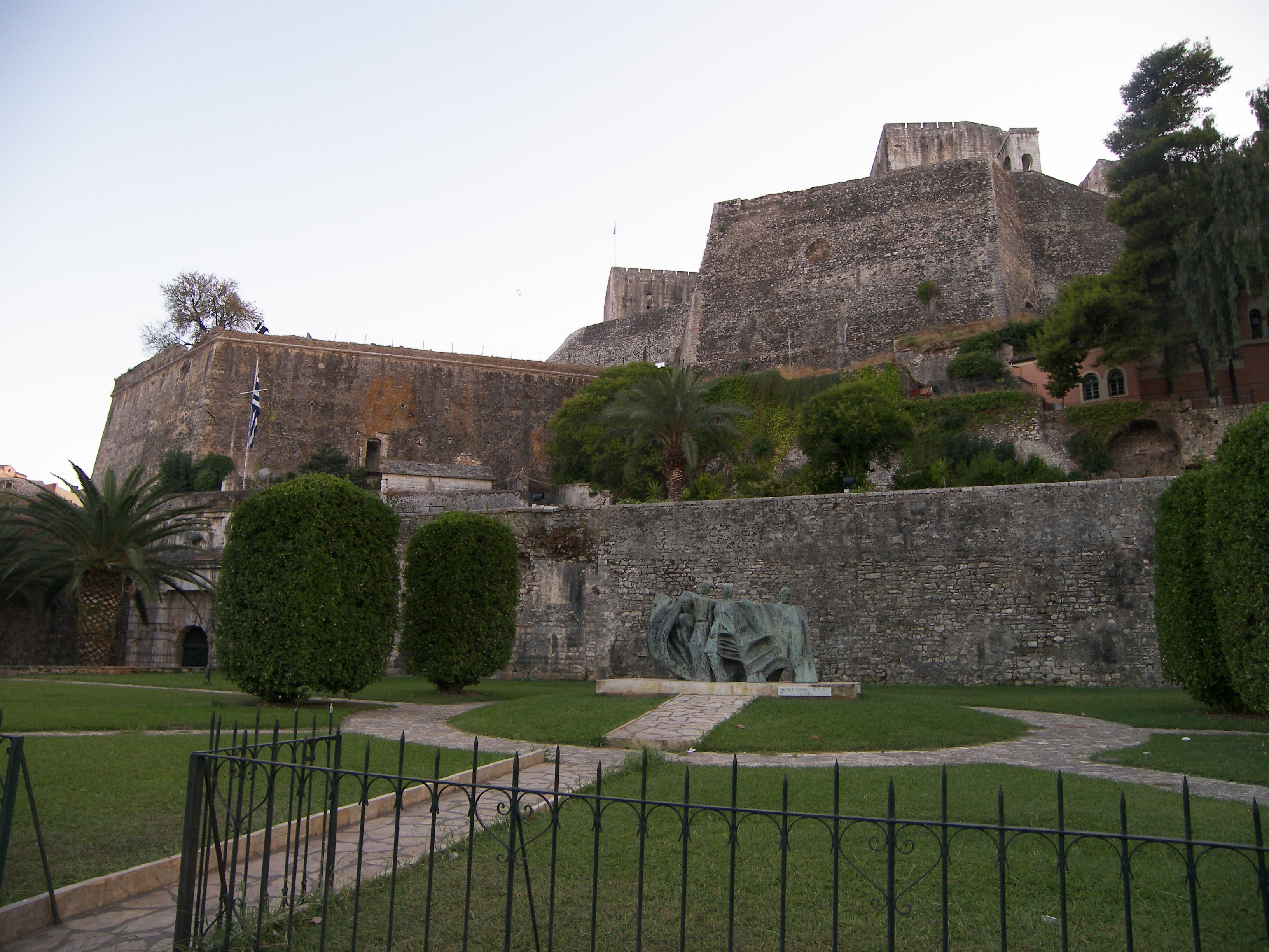 Filename